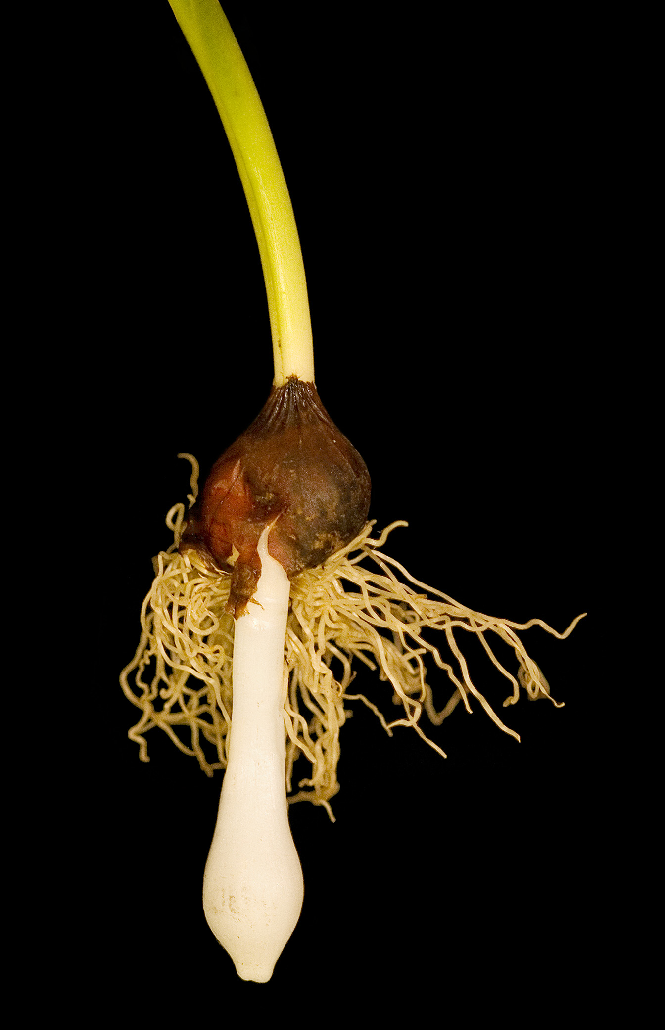 A bulb of a tulip. During rapid spring growth, the bulb exhausts its stored nutrients and shrinks in size. A white stolon, carrying the bud of a new bulb, bursts through the base of the old bulb and drives the bud deeper into the soil. By the end of spring season the old bulb will be reduced to dry dead sheaths; the new bulb will be ready for re-planting in the end of summer. This type of bulb reproduction is typical for immature tulips; only a few species like T.praestans continue it after first blooming.